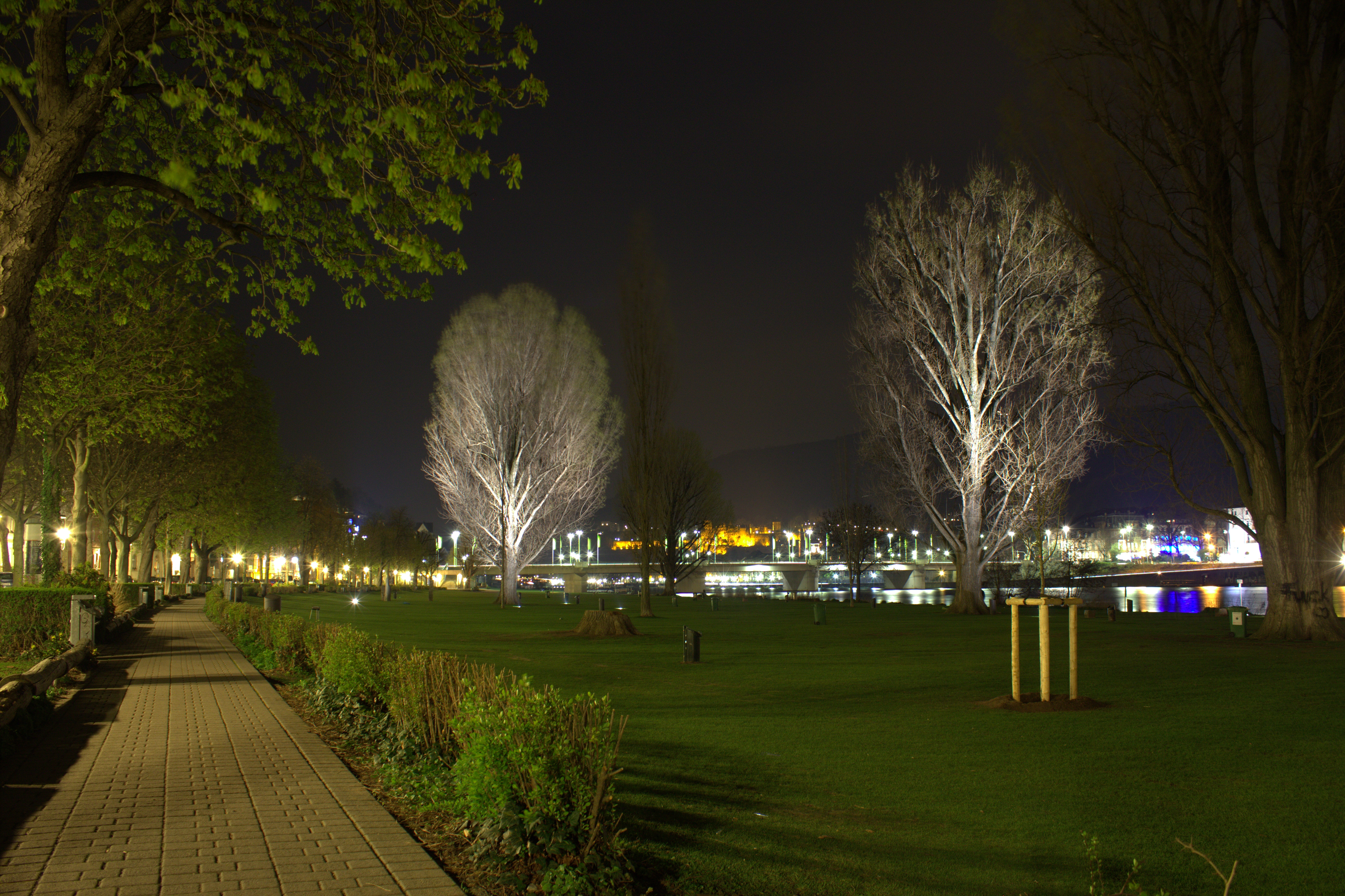 View onto the Neckarwiese in Heidelberg, Germany at night